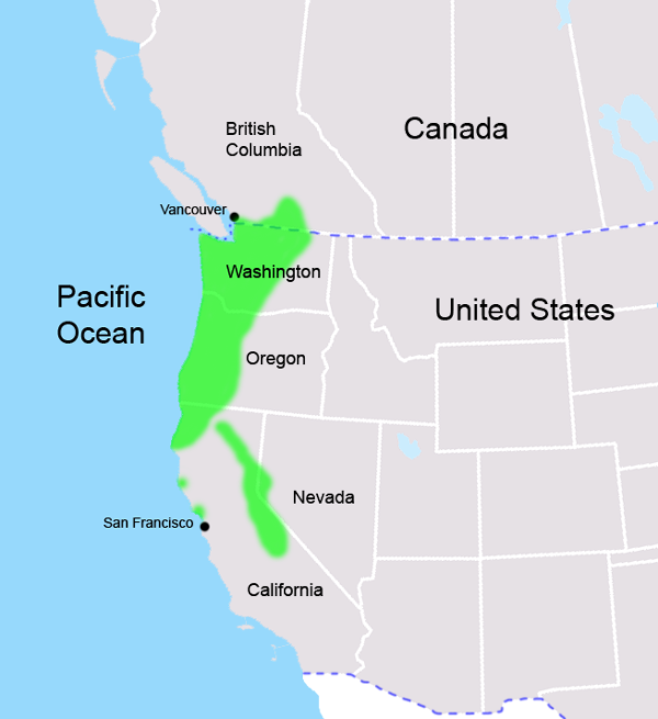 Distribution of Mountain Beaver (Aplodontia rufa) in the U.S.A. and Canada Aplodontia rufa International boundary